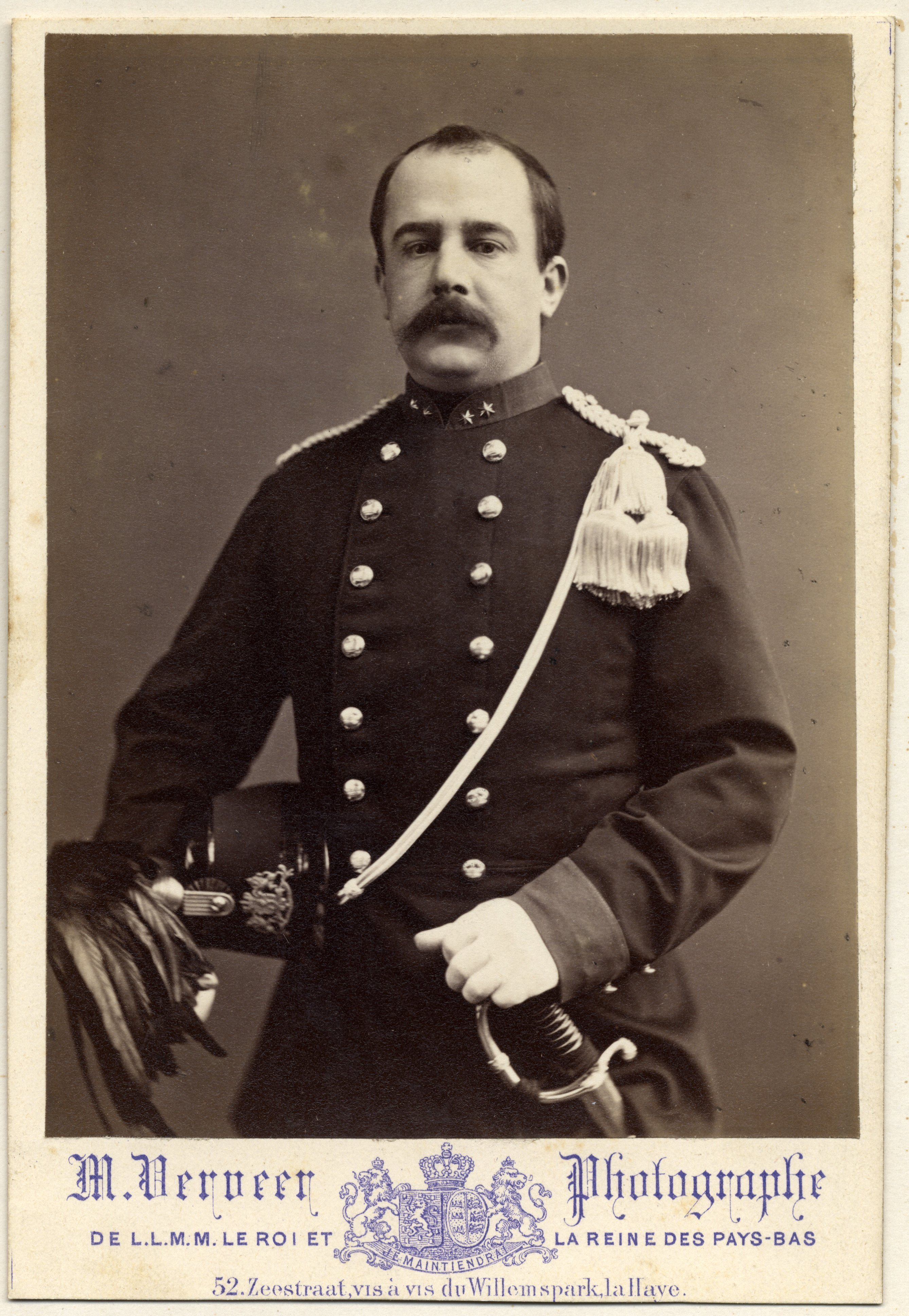 Jhr. mr. W.V.R.K. Baud, 1e Luitenant